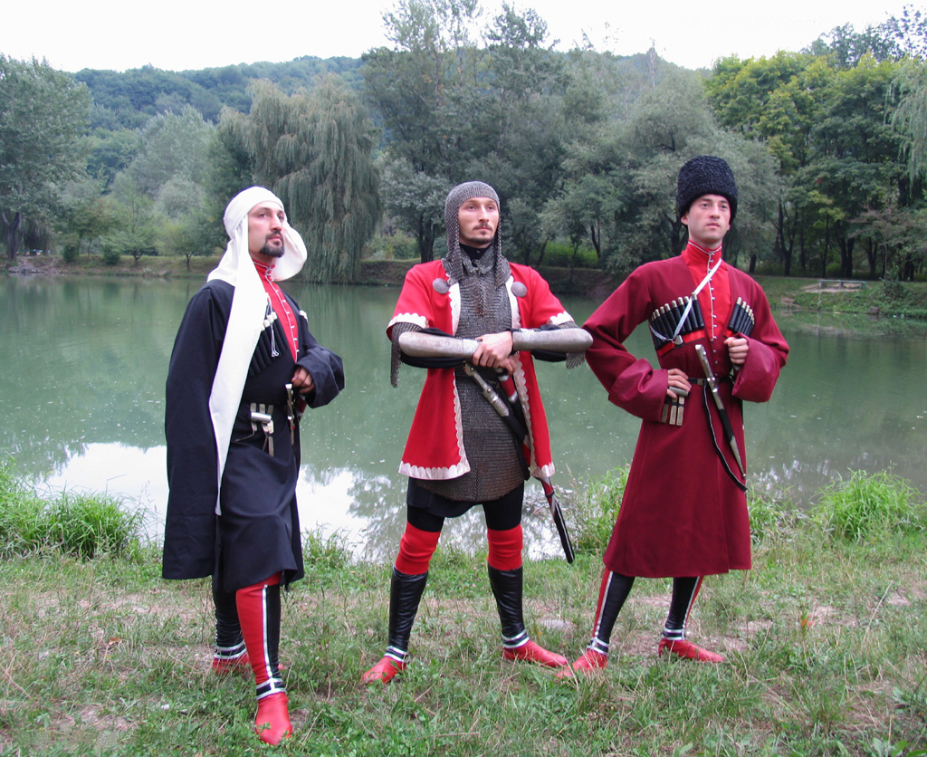 Circassians in Costumes